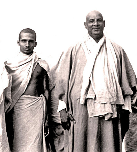 Krishnananda and Sivananda, circa 1945